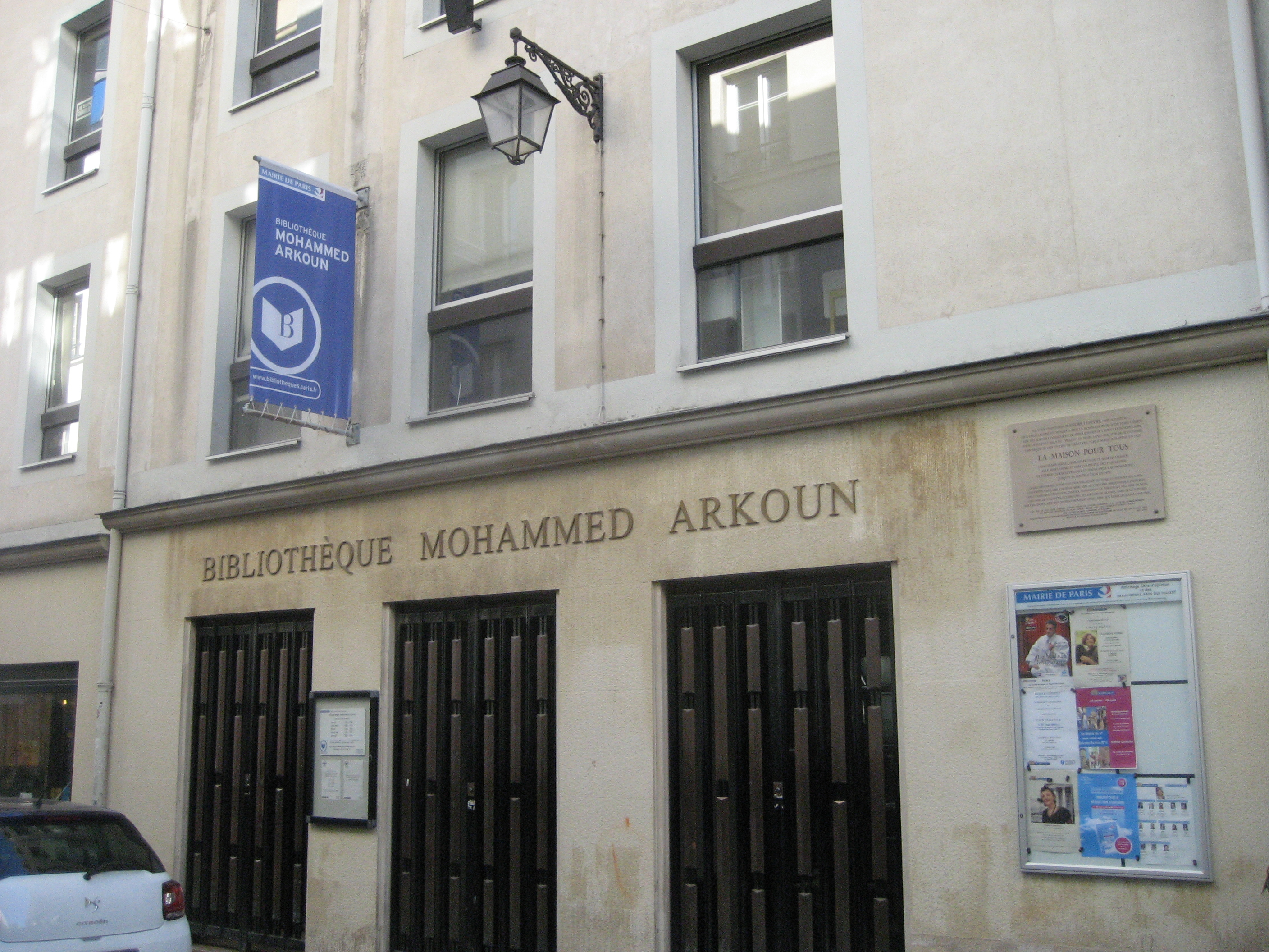 Bibliotheque Mohammed Arkoun, 74 Rue Mouffetard, 75005 Paris